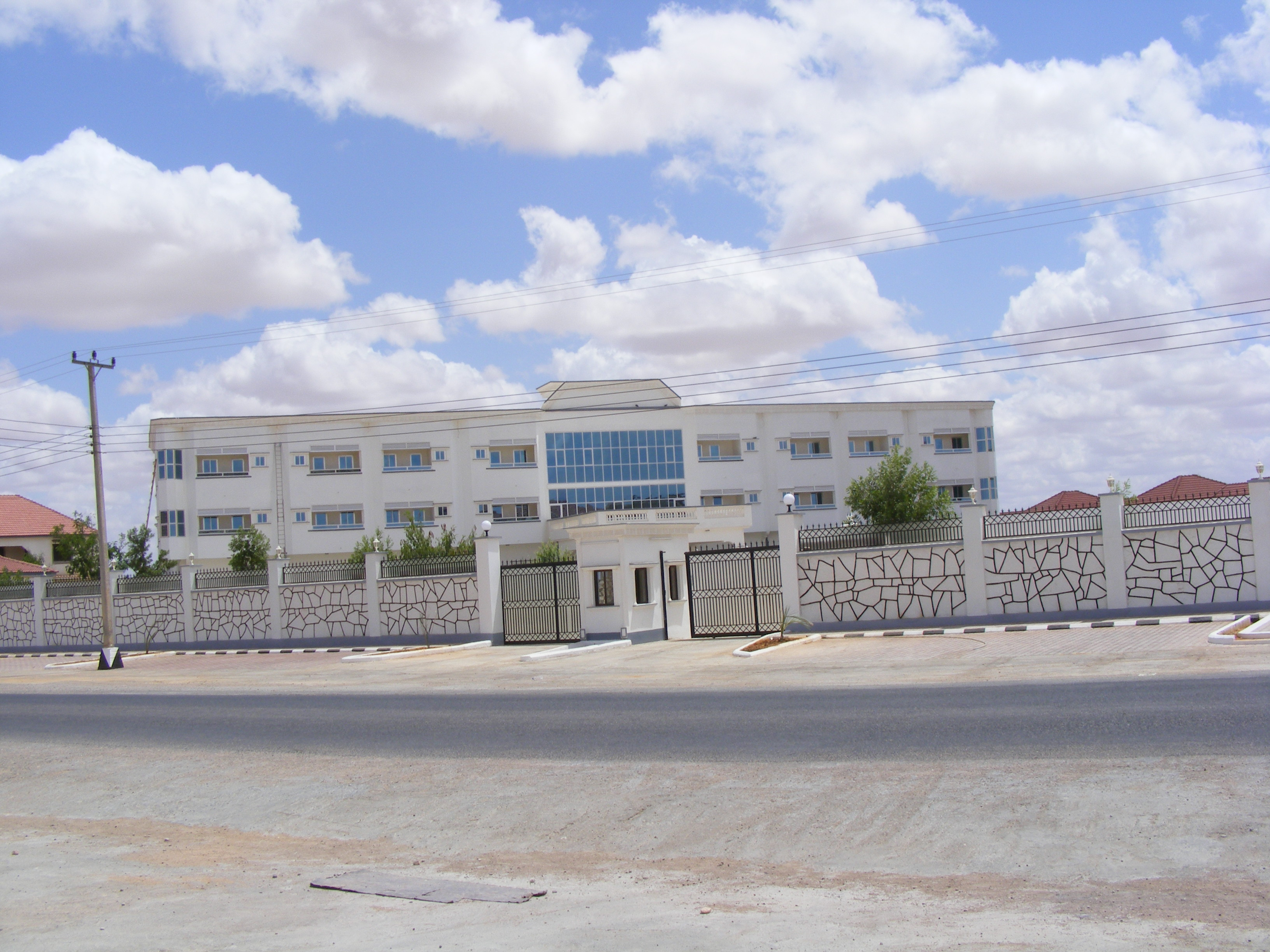 A new building in a residential area in Garowe, Somalia.